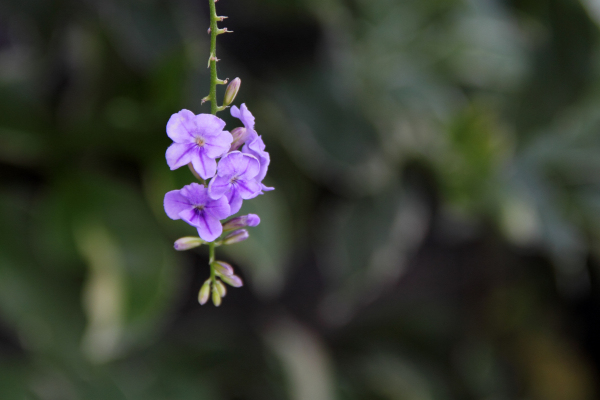 golden dewdrop, pigeon berry, skyflower